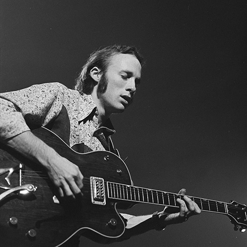 Stephen Stills performing on the Dutch television program Toppop in 1972